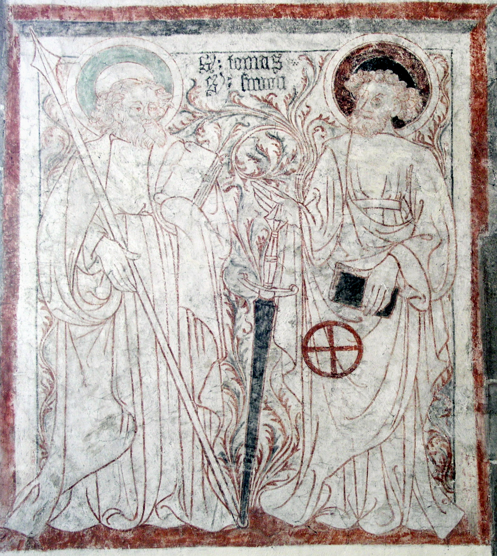 Fresco representing Saint Thomas and Saint Paul in Othem church, Gotland, Sweden